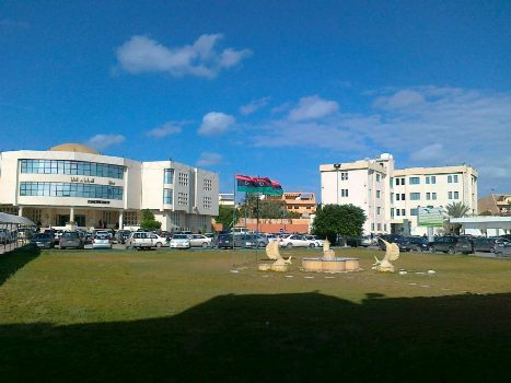 الاكاديمية الليبية طرابلس